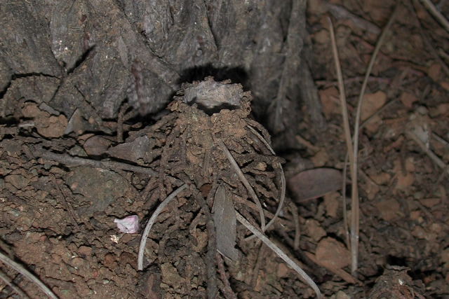 Atypoides riversi turret, northern California.